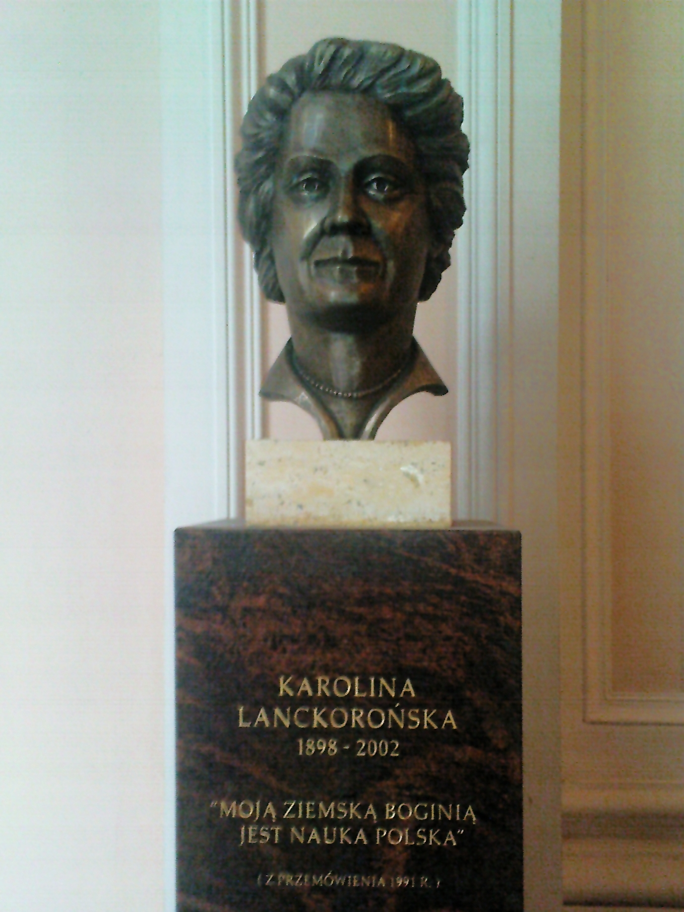 Karolina Lanckorońska - a bust in the lobby of the building of PAU in Krakow